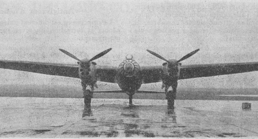 Amiot 356 front photo from L'Aerophile December 1942